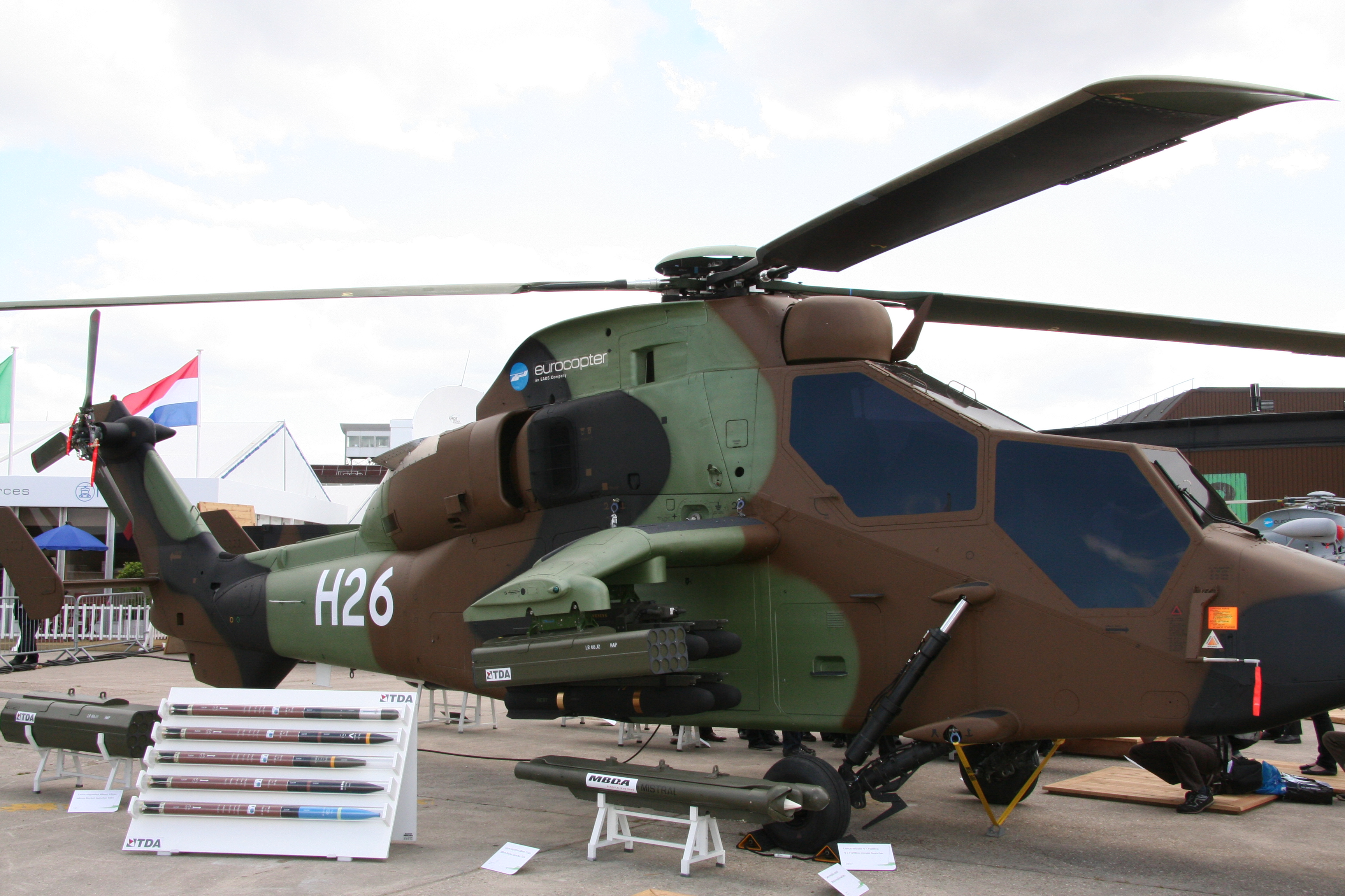 Eurocopter Tiger - Paris Air Show 2009